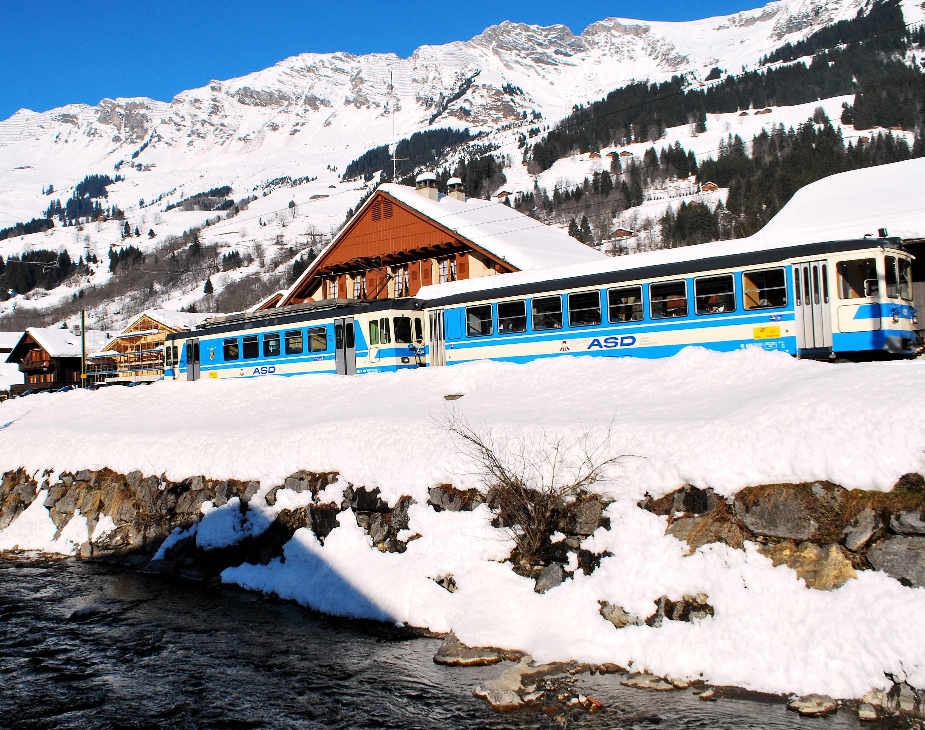 Chemin de fer Aigle-Sépey-Diablerets (ASD): View of Diablerets railway station, Vaud, Switzerland